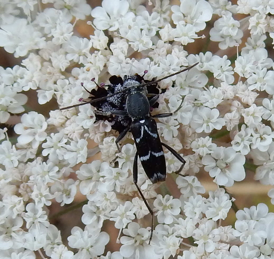 Clytus madoni, Nesher, Israel